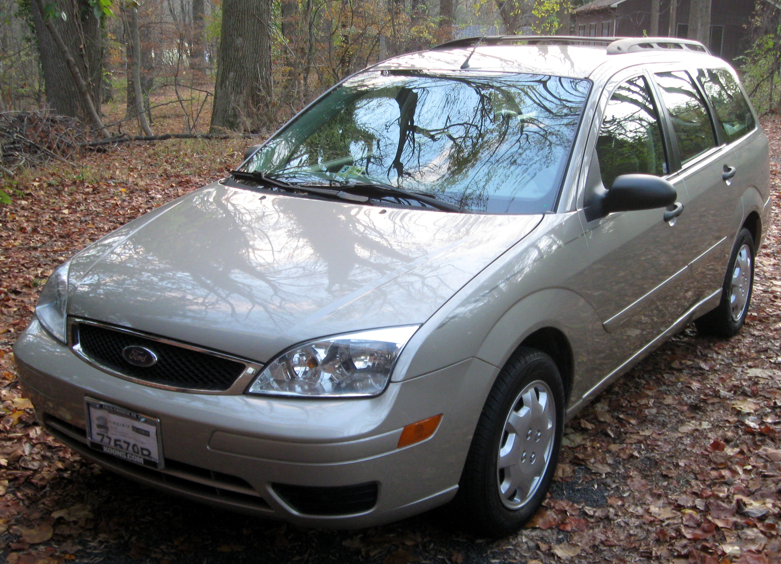 2007 Ford Focus wagon (aftermarket wheel covers)